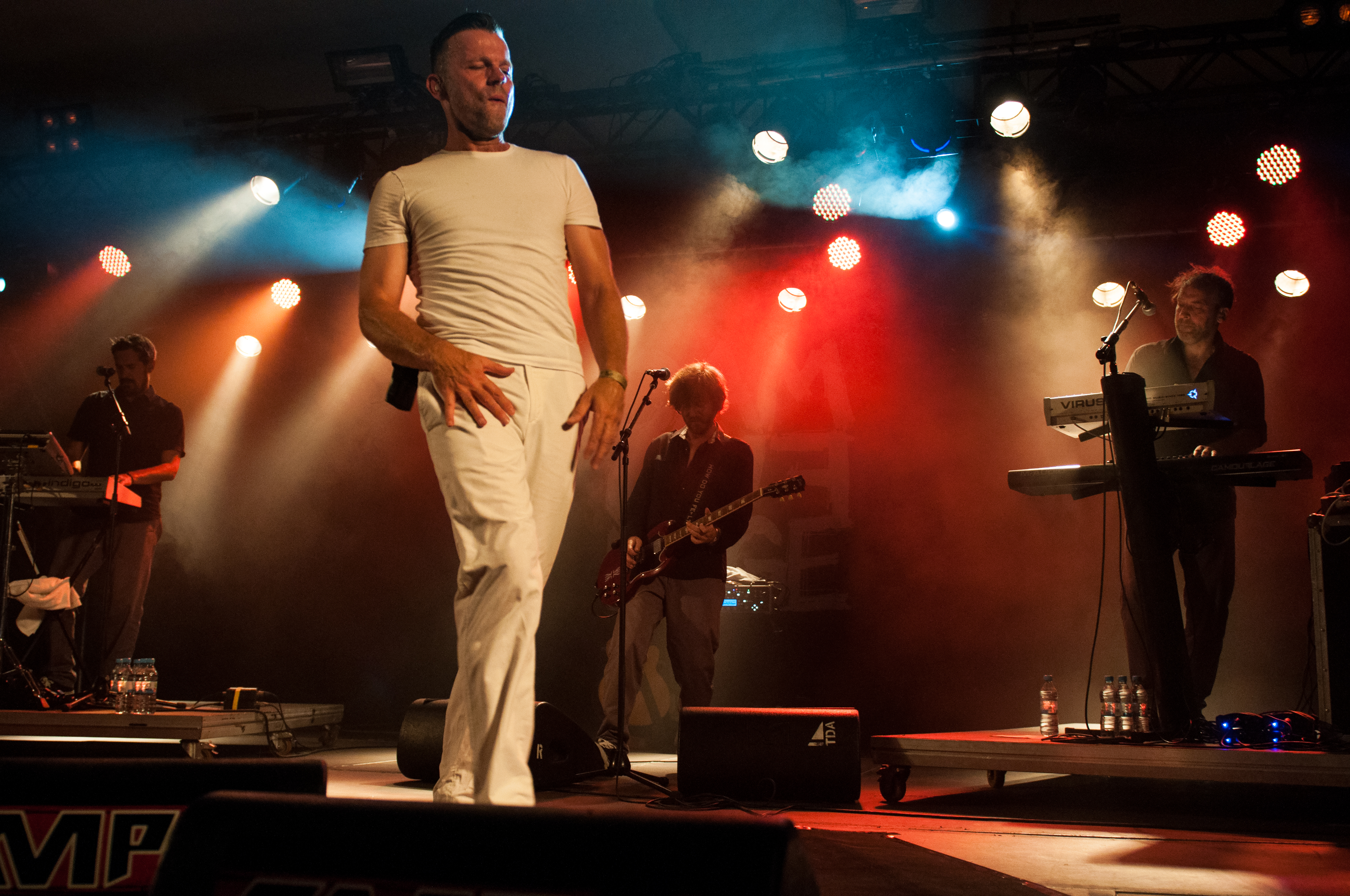 Camouflage at Amphi Festival 2014, Cologne